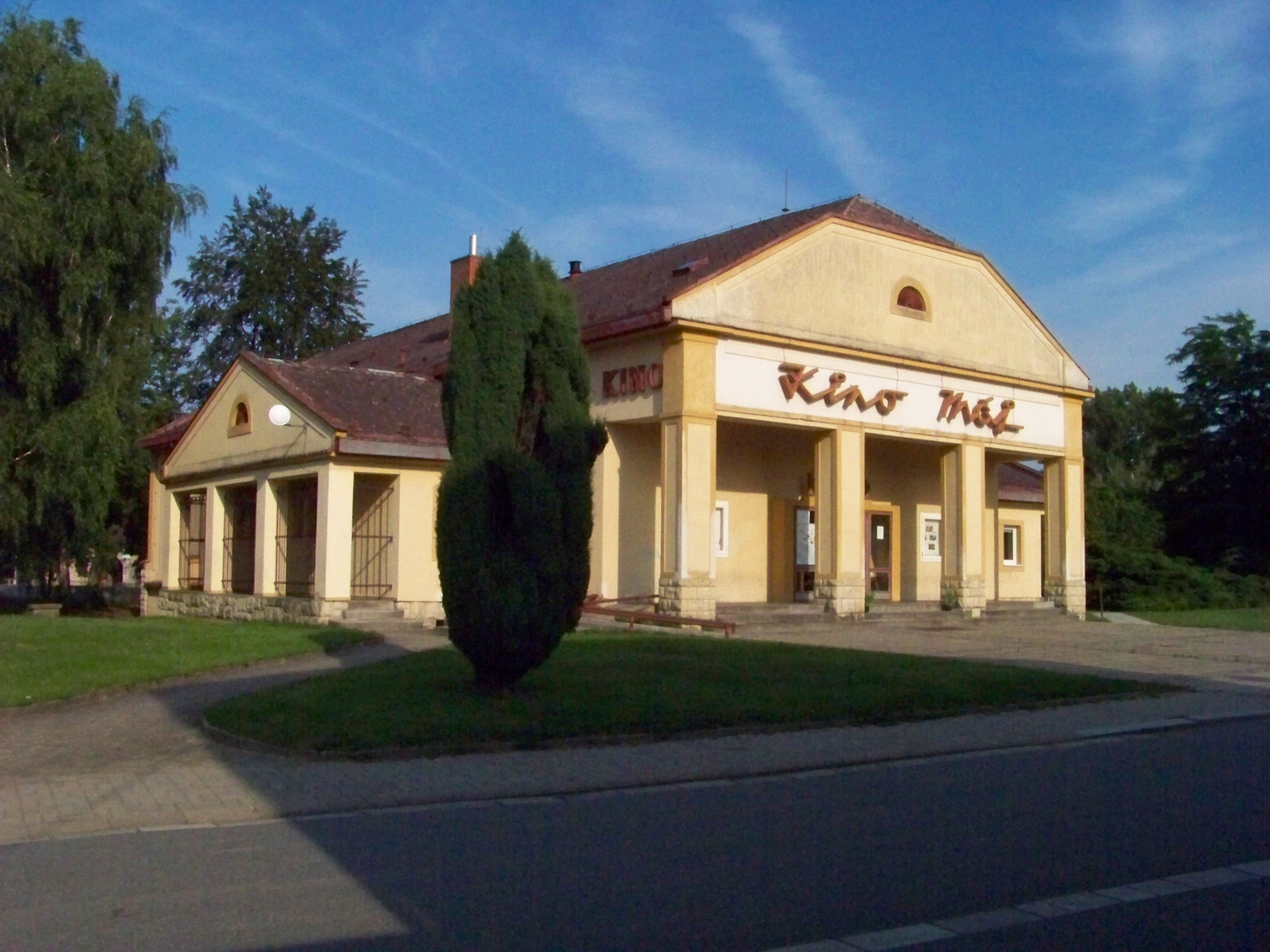 Choceň, Ústí nad Orlicí District, Pardubice Region, the Czech Republic. Na Herzánce street, Máj Cinema. - OpenStreetMap(Info)